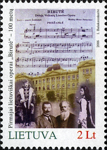 Stamps of Lithuania, 2006